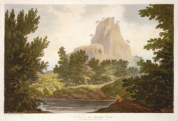 A View in the Jungle Terry, plate 47 from William Hodges' book, 'Select Views in India'.